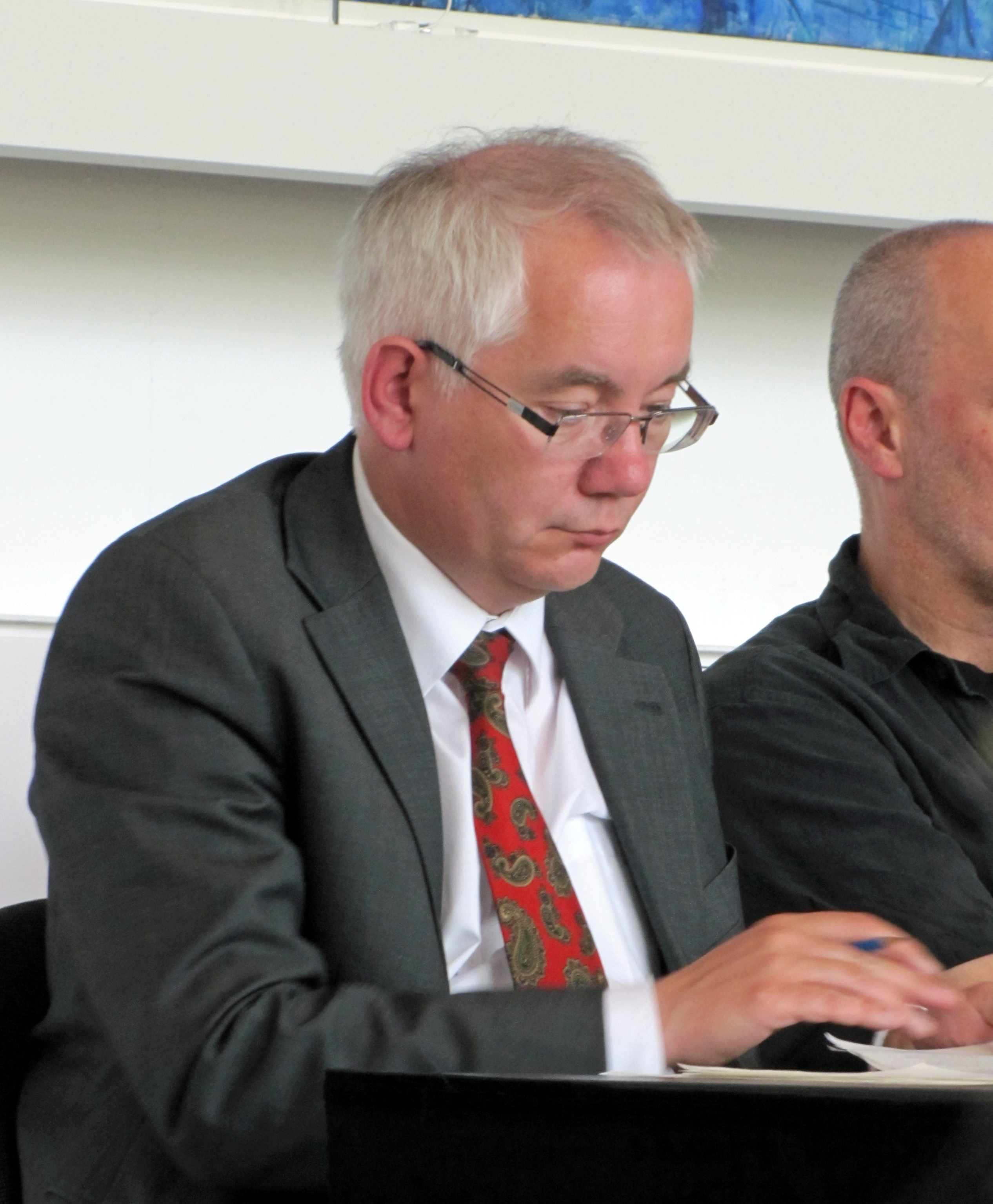 Oliver Lepsius, professor of jurisprudencs at University Bayreuth, 2011 at "Roemerberggespraeche" (panel discussion) in Frankfurt am Main, Germany.